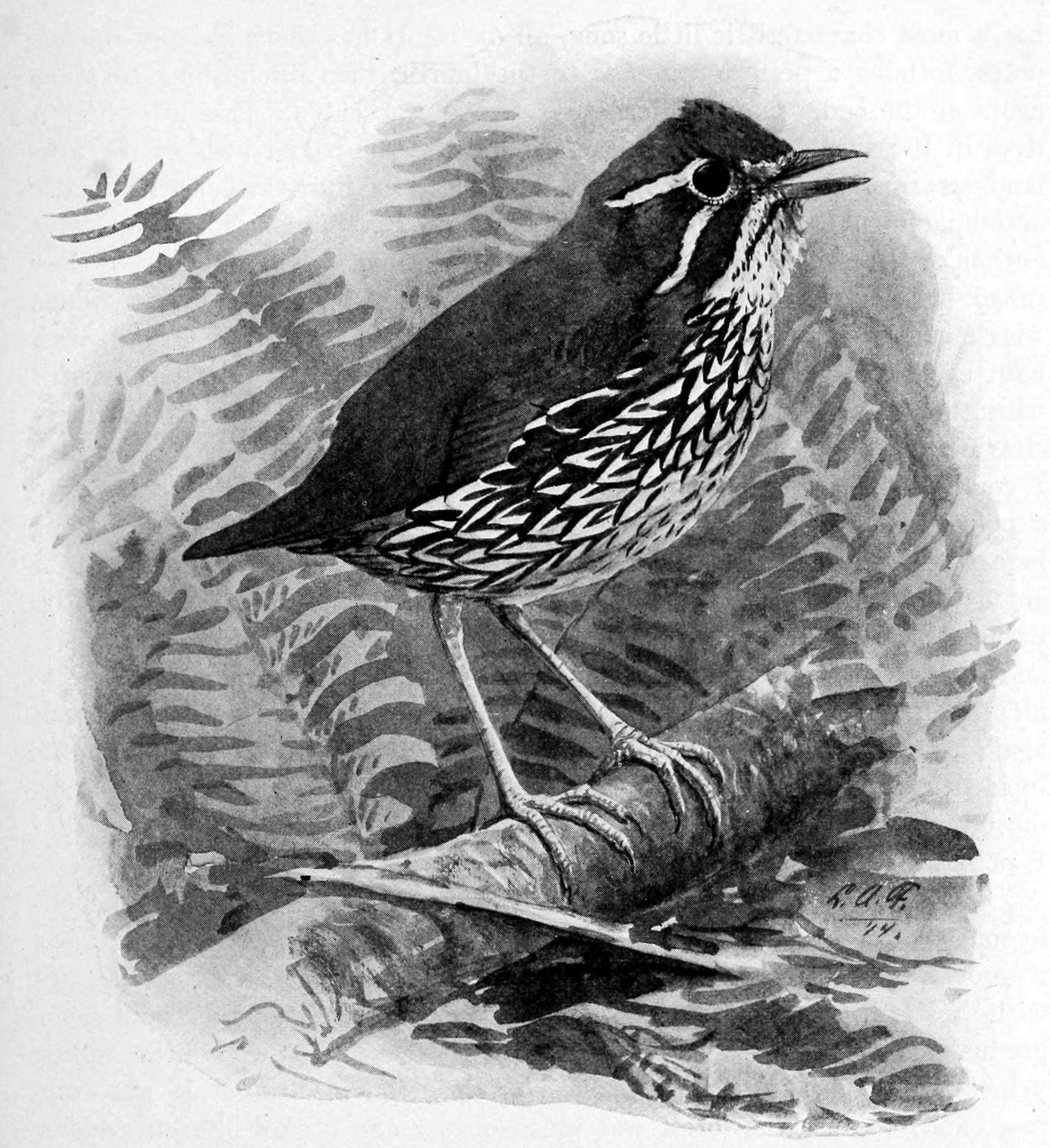 Title: Bird lore Year: 1899 (1890s) Authors: National Committee of the Audubon Societies of America National Association of Audubon Societies for the Protection of Wild Birds and Animals National Audubon Society Subjects: Birds Birds Ornithology Publisher: New York City : Macmillan Co. Text Appearing Before Image: COMPRA PAN (Grallaria ruficapilla) Impressions of the Voices of Tropical Birds 163 Text Appearing After Image: THE NOON-WHISTLE (Chamaza turdina) any variation in the song except, when the bird is near the limit of its curiosity,the last note sometimes drops off in a throaty slur, instead of rising a tone:A, F, E. On the west slope of the Eastern Andes we found another species, G.hypoleuca, whose song, though readily recognizable as a Grallaria was radically different in form. One longish note on B; a rest; then about five ascending notes a scant semitone apart, and four to the second. This bore a striking resemblance to the first half of Chamceza brevicaudas song heard on the eastern slope of the Eastern Andes at Buena Vista, and is almost identical with that of Grallaria rufula from the highest timbered ridges of this chain,except that here the pause is omitted and the song is higher, beginning on E. Little Grallaria modesta from the eastern foot of the Andes at Villavicencio, i64 Bird - Lore has a most characteristic little song, all on E. It has seven sharply staccato notes, forming a perfe